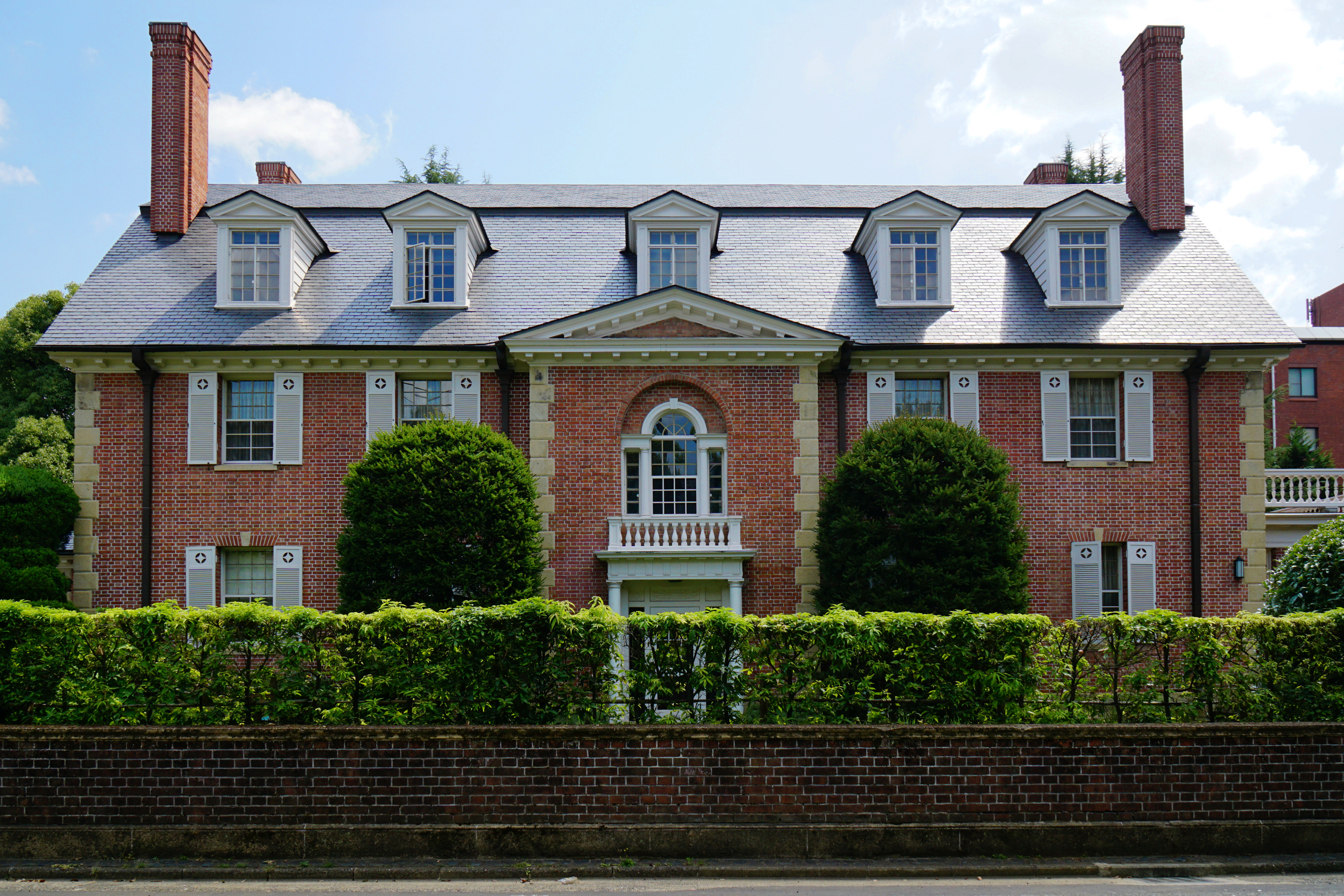 Doshisha University Imadegawa Campus in Kyoto, Kyoto prefecture, Japan